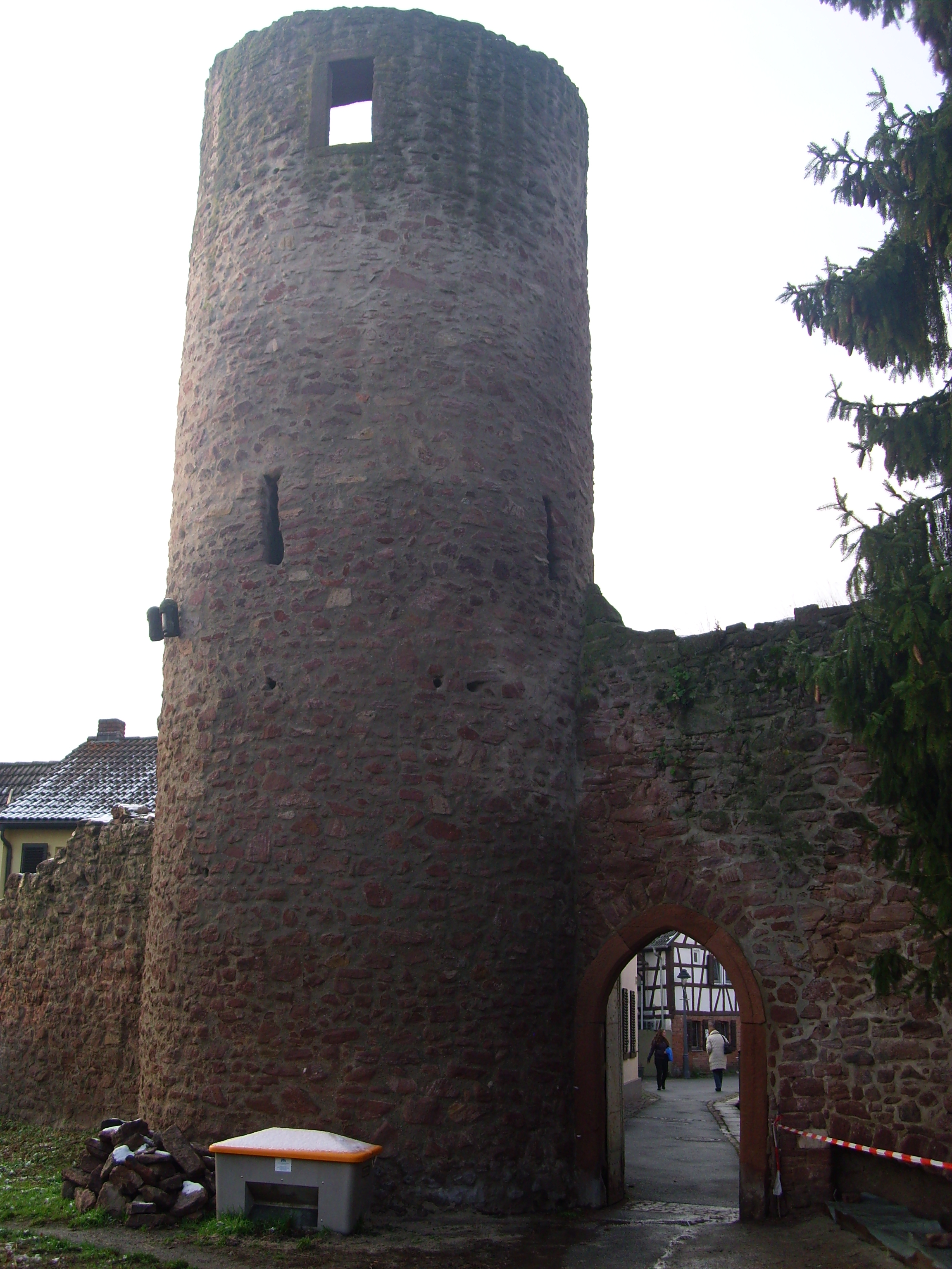 The "Blunt tower" is part of the old city wall of Langen